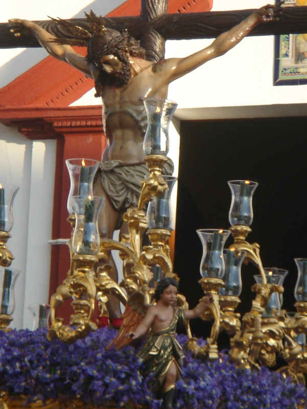 Vera-Cruz.